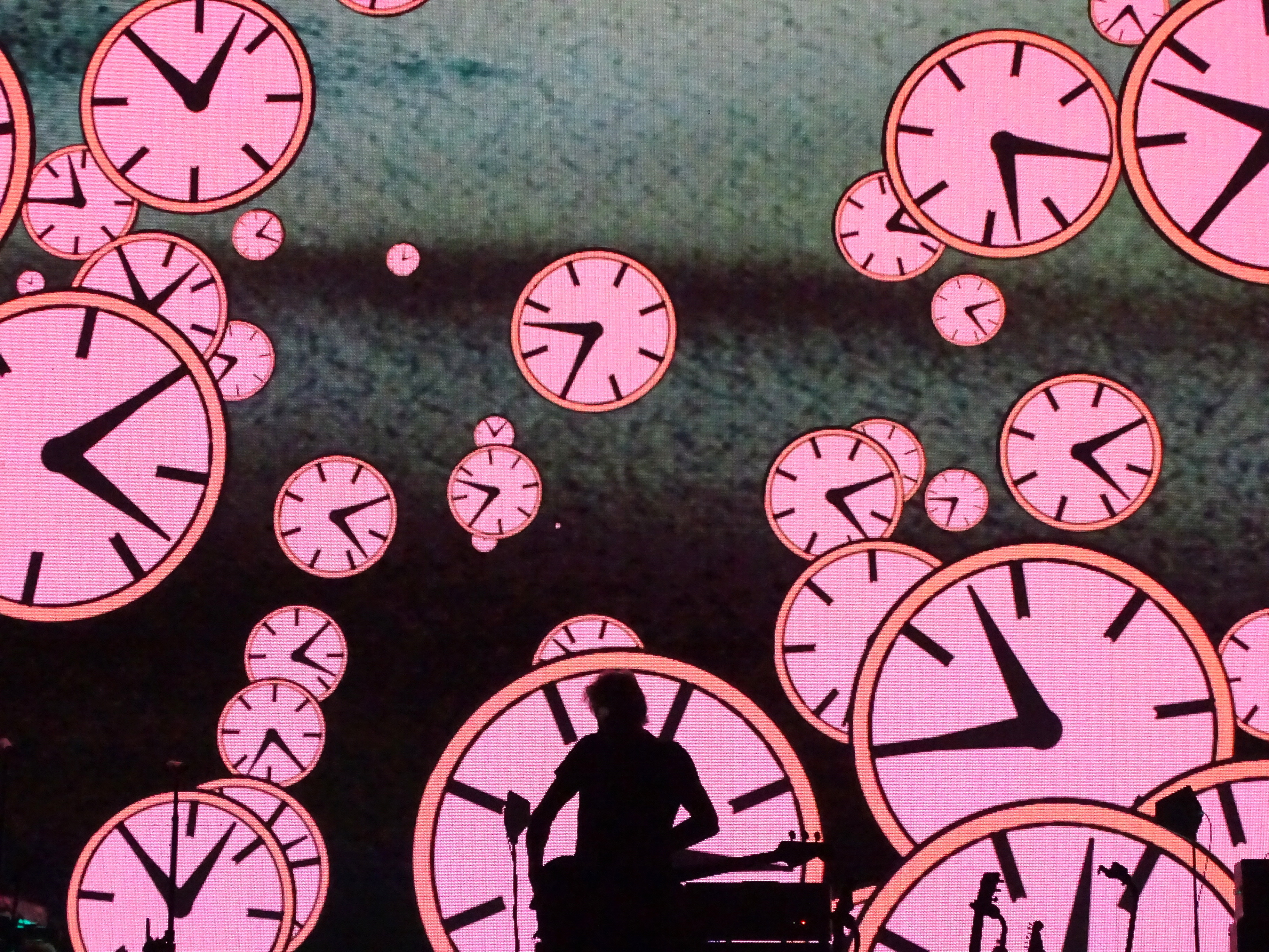 Roger Waters in Concert - Rogers Arena - Vancouver - BC - Canada - 01